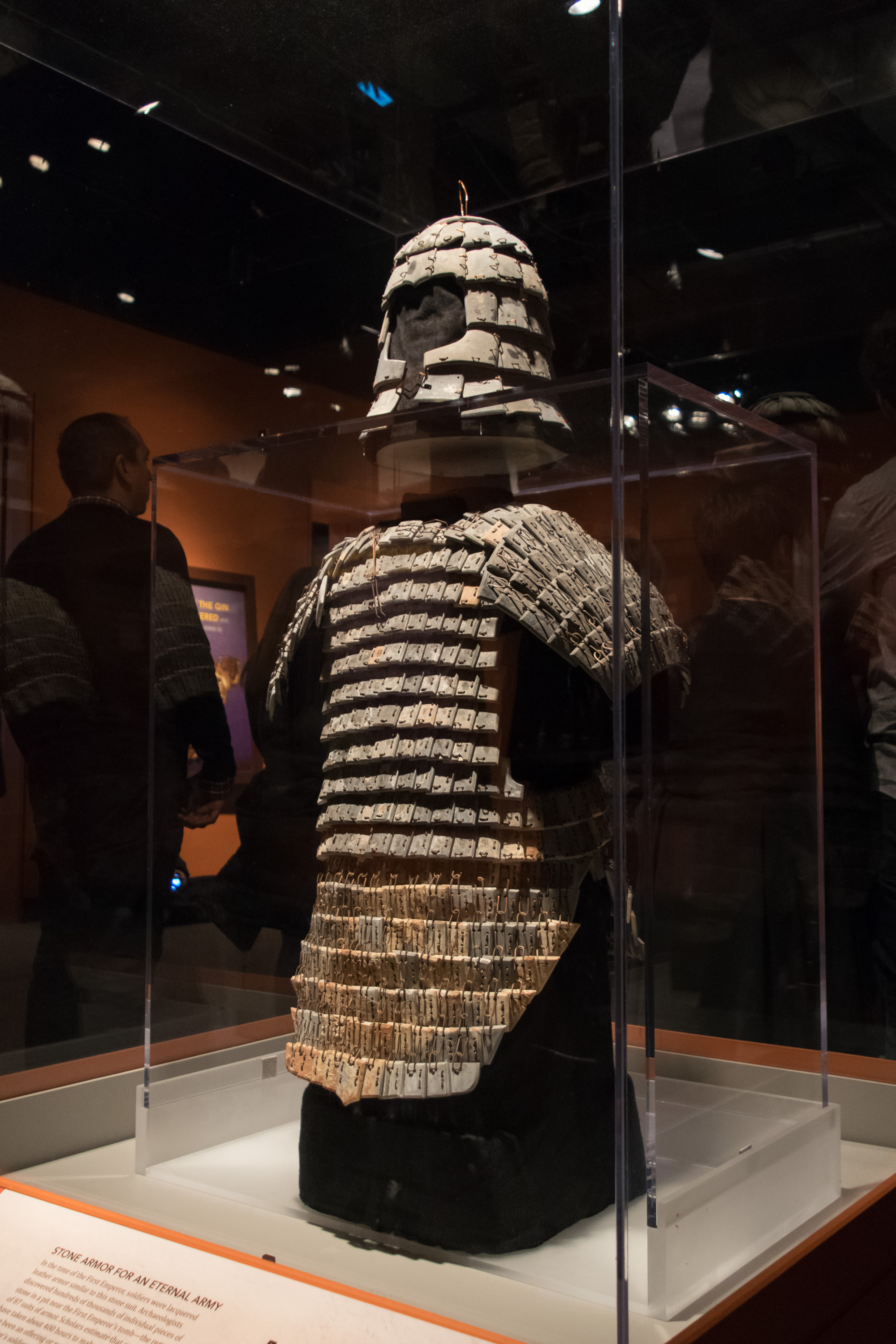 Helmet and armor.